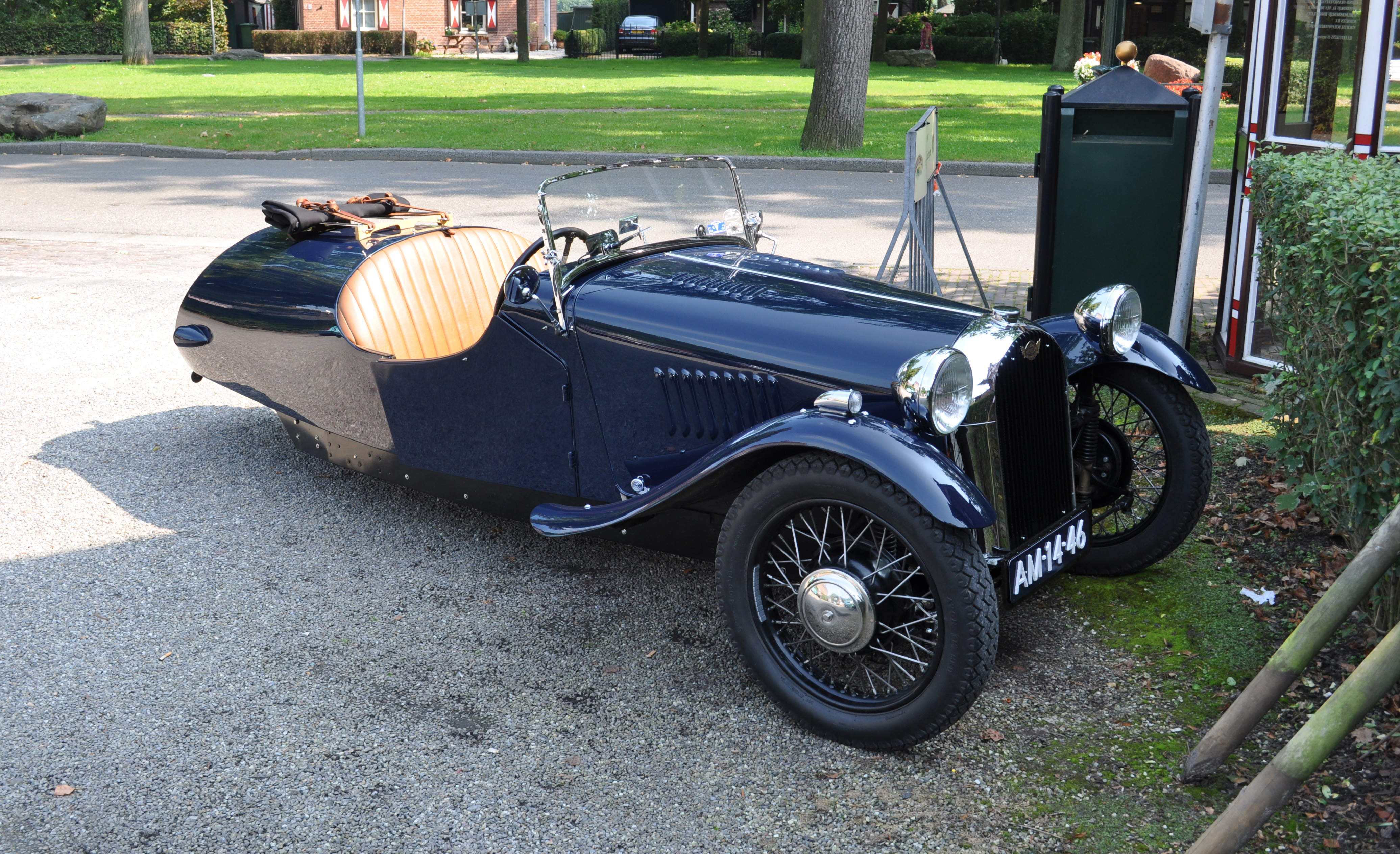 A Morgen Model F-Super with two passengersdoors